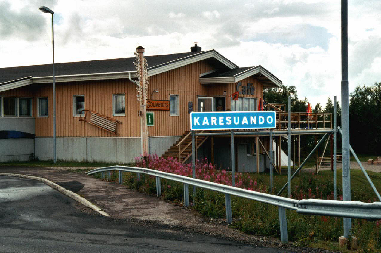 Entering Karesuando and tourist information